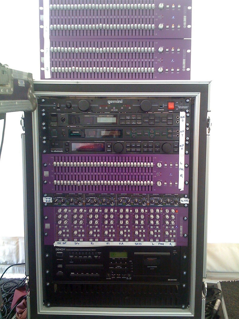 FOH rack @ Rip Curl Pro 09 FOH rack @ Rip Curl Pro 09 Klark Teknik Square ONE Graphic ×2 Gemini PL-202 Racklight & Power Conditioner Yamaha SPX900 Digital Multi Effects Processor Yamaha SPX90II Digital Multi Effects Processor t.c. electronic D-Two Multitap Rhythm Delay Klark Teknik Square ONE Graphic unknown 4ch processor Klark Teknik Square ONE Dynamics Denon CD player & Compact Cassette Tape Recorder